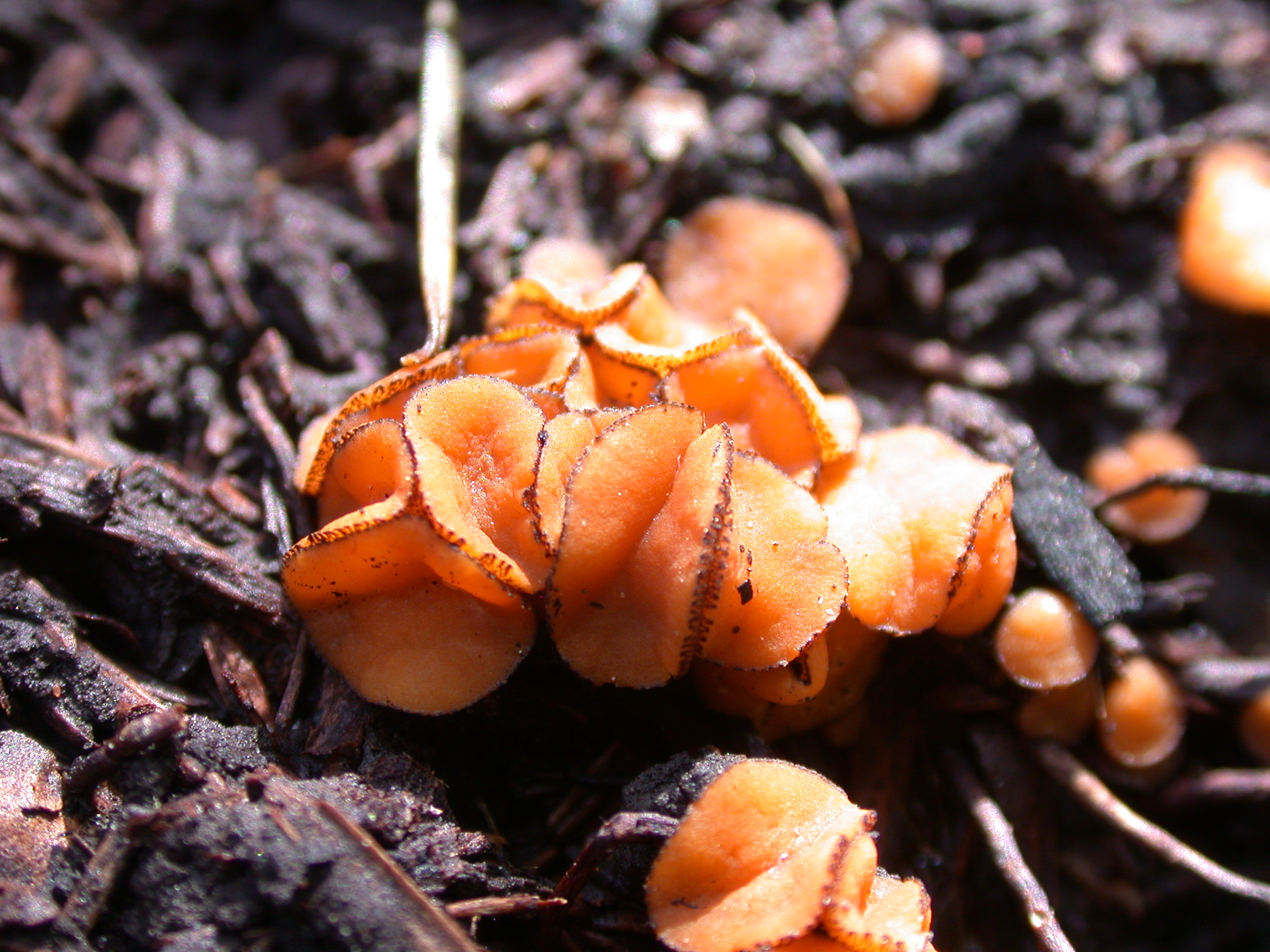 Fruit bodies of the ascomycete fungus Anthracobia macrocystia. Specimens photographed in Big Basin Redwoods State Park, Santa Cruz Co., California, USA.